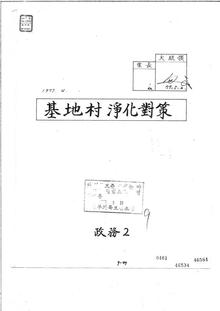 Camptown clean up campain signed by President Park Chung-hee.